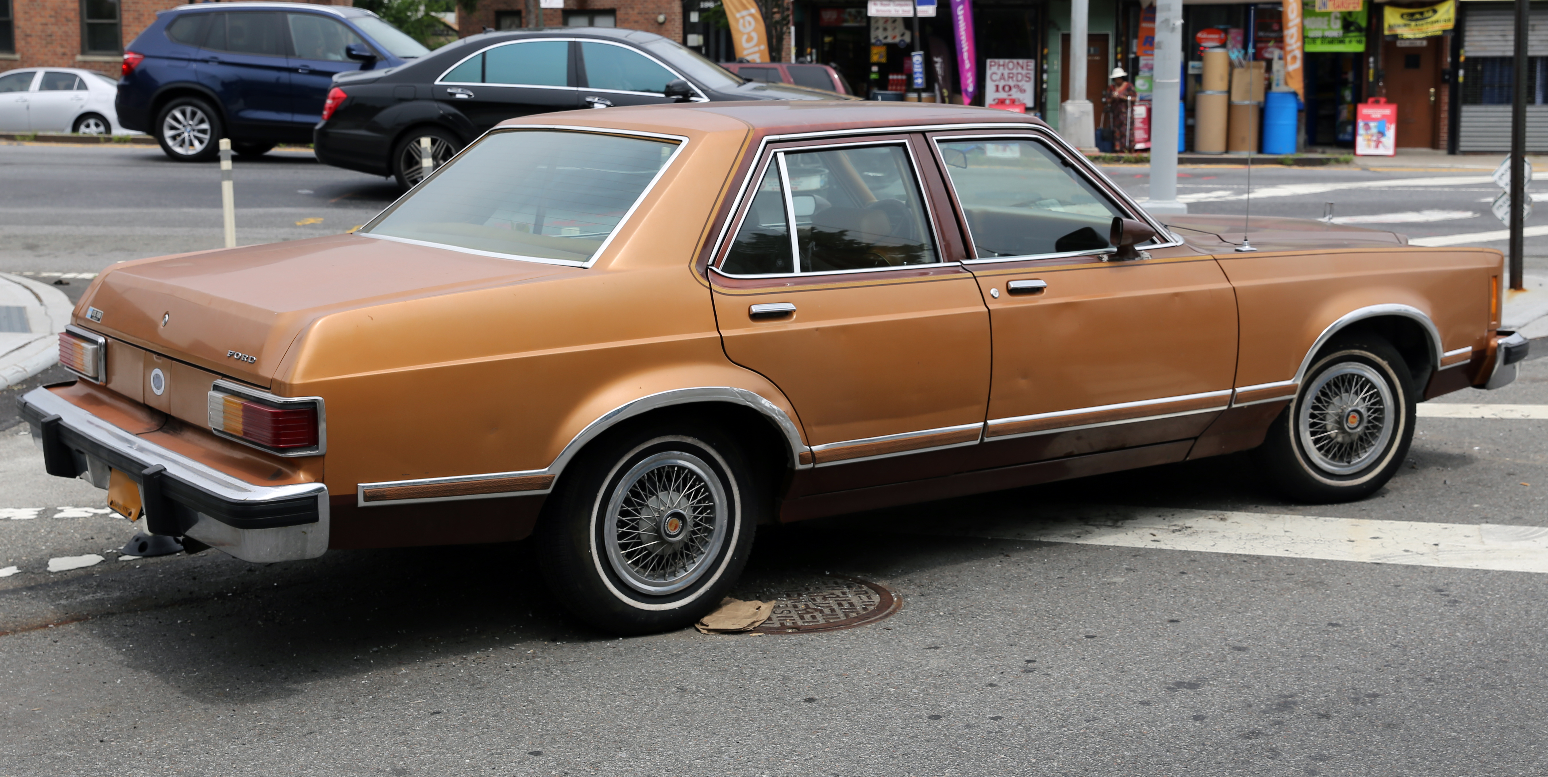 1980 Ford Granada four-door sedan with the 4.1 litre (250 ci) "Thriftpower" inline-six with a single carburator. Wacky two-tone paintjob, parked next to a church (naturally) in Hollis, Queens, NY.